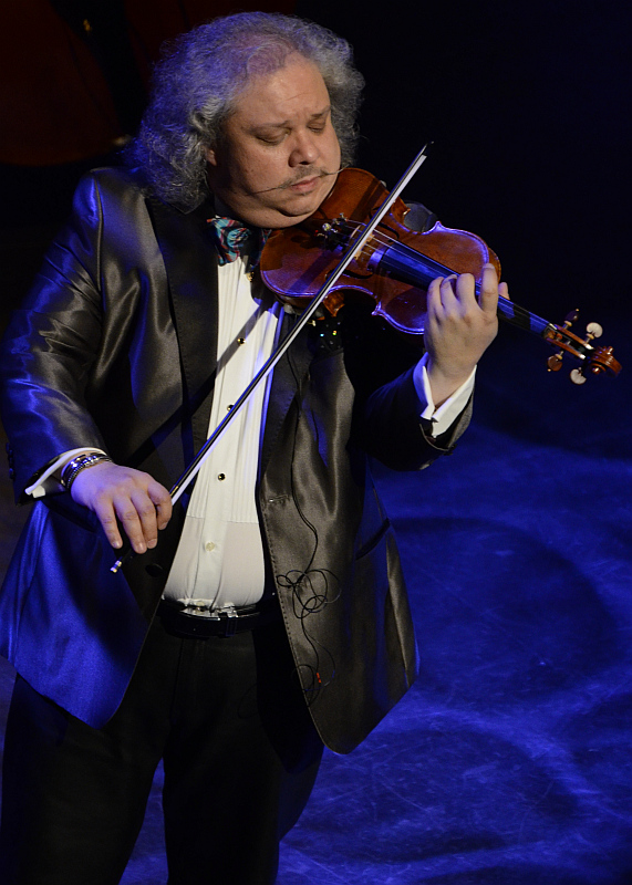 Roby Lakatos 2014